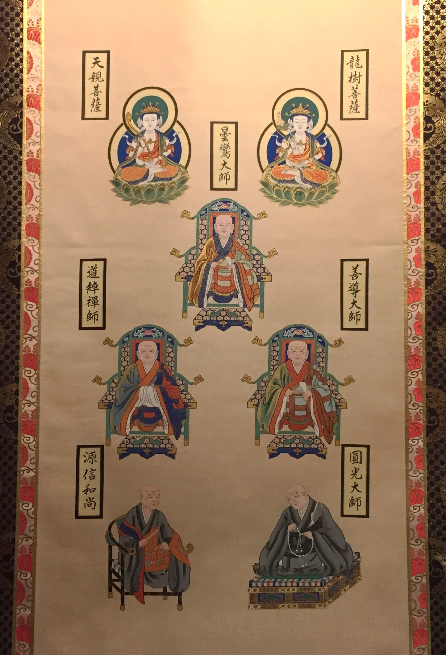 A Scroll of the Seven Masters of Jodo Shinshu Buddhism